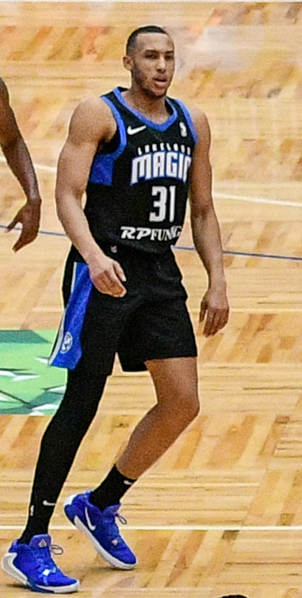 Lakeland Magic vs College Park Skyhawks. RP Funding Center. Lakeland, Fla. Nov. 16, 2019. (Photo by Tom Hagerty.)